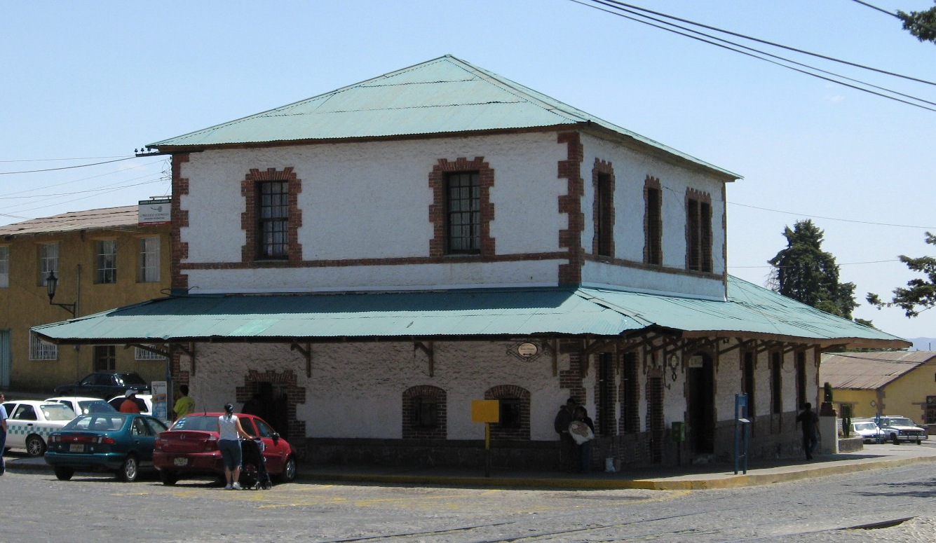 El Oro train station in El Oro, Mexico State, Mexico